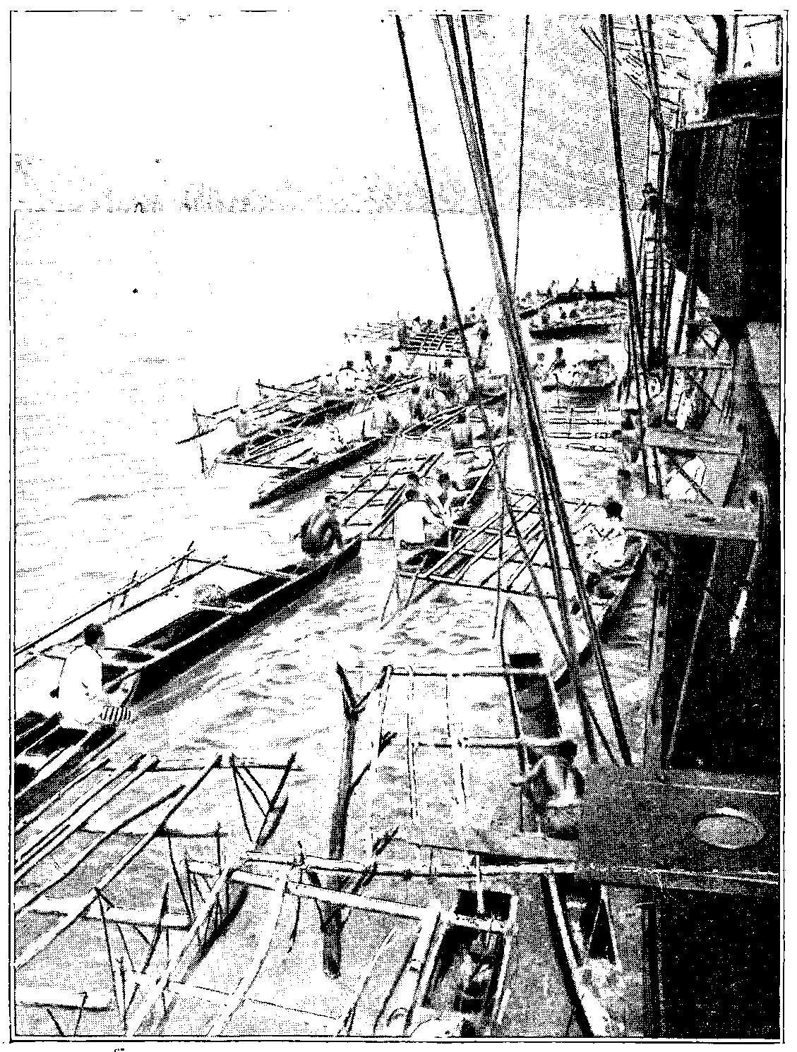 Engraving showing Wallisian outrigger canoes next to a French war ship (Aviso) in 1900, Wallis island, Polynesia.